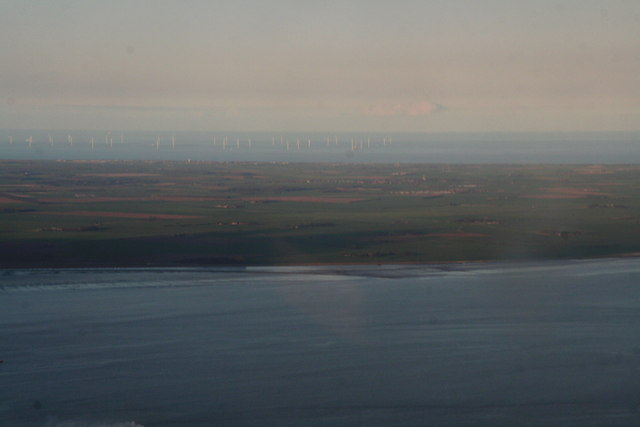 Westermost Rough Windfarm from Killingholme: aerial 2015. Westermost Rough Windfarm. Looking across the River Humber and the Holderness Peninsula. Humber Gateway Windfarm is also visible just to the south